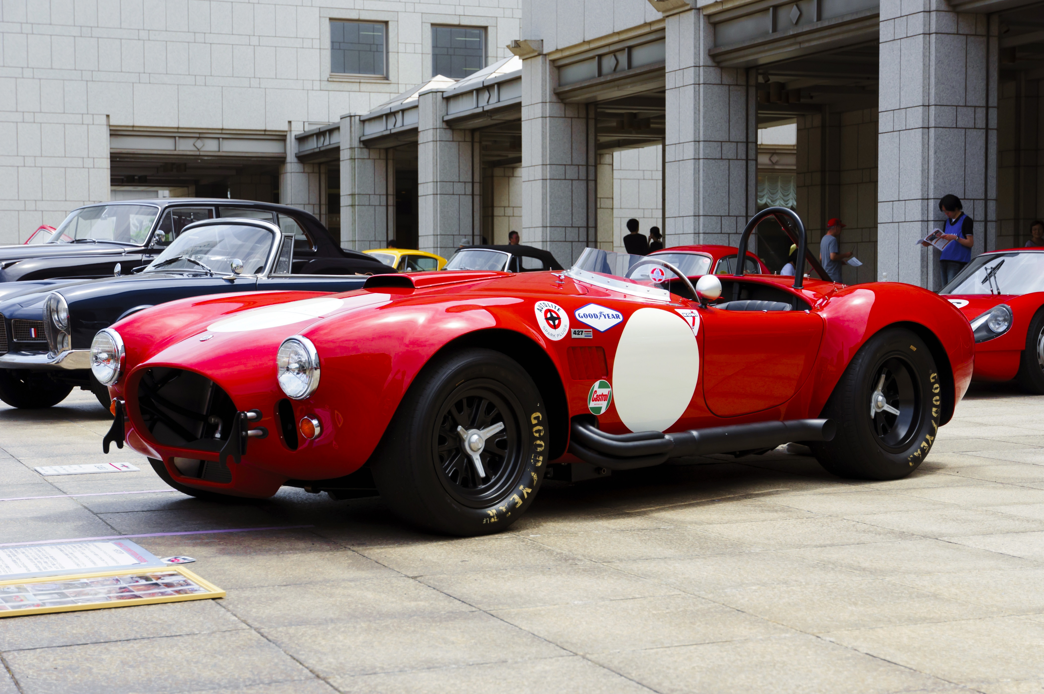 Shelby Cobra 427 [US 1964] 04_DSC7600